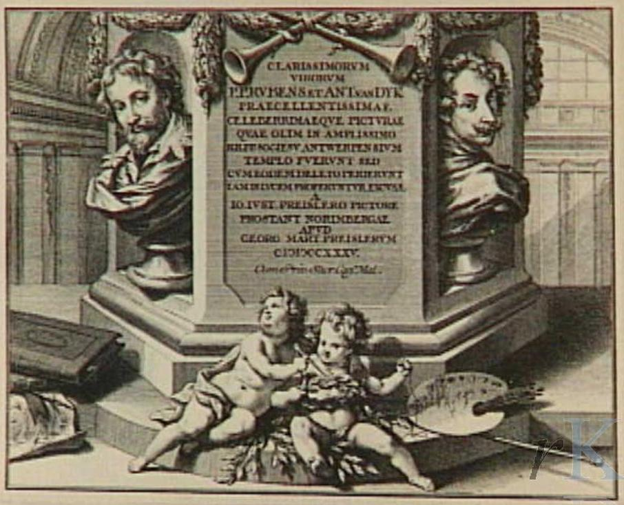 Book of sketches of Rubens ceiling pieces in the Sint-Carolus Borrolomeus church in Antwerp after the fire in 1718 destroyed them; Frontispiece Georg Martin Pressler and Johann Justin Preissler after Rubens; CLARISSIMORUM VIRORUM P.P.RUBENS et ANT.vanDYCK PRAECELLENTISSIMAE Quae olim in R.R.P.P. Soc. Jesu Antverpiensium Templo fuerunt etc.; excusae a jo. just. preislero. Norimbergae, apud G. Mart. Preislerum, 1735